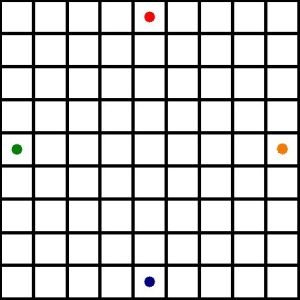 I Jeremy Tsistinas created this file for the specific intent of using it in the Wikipedia article Quoridor.